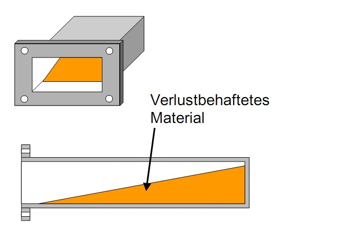 matched load in rectangular waveguide formed from wedge of lossy material